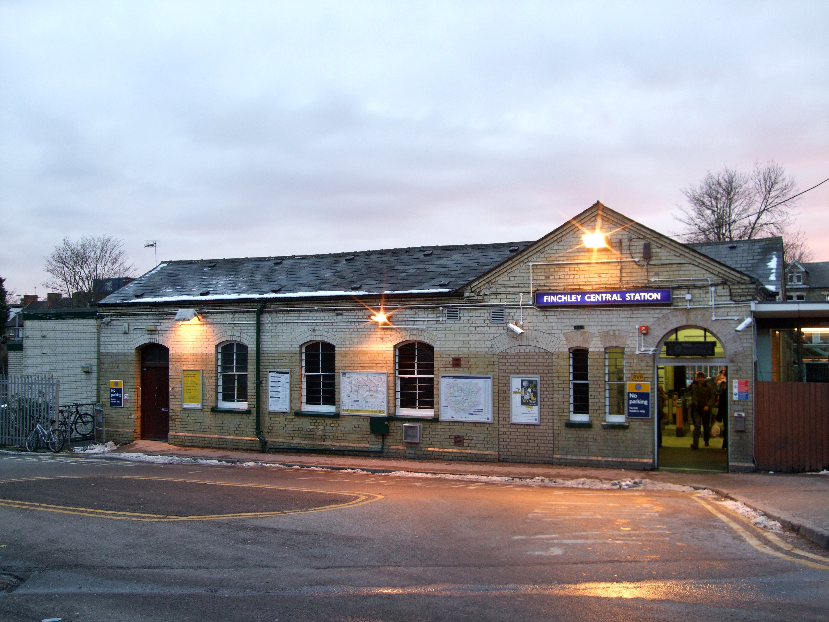 Down on its own little street off the main road is this station. Line(s): Northern Line. Former Name(s): Finchley (Church End); Finchley; Finchley & Hendon (on the same site). Links: Randomness Guide to London